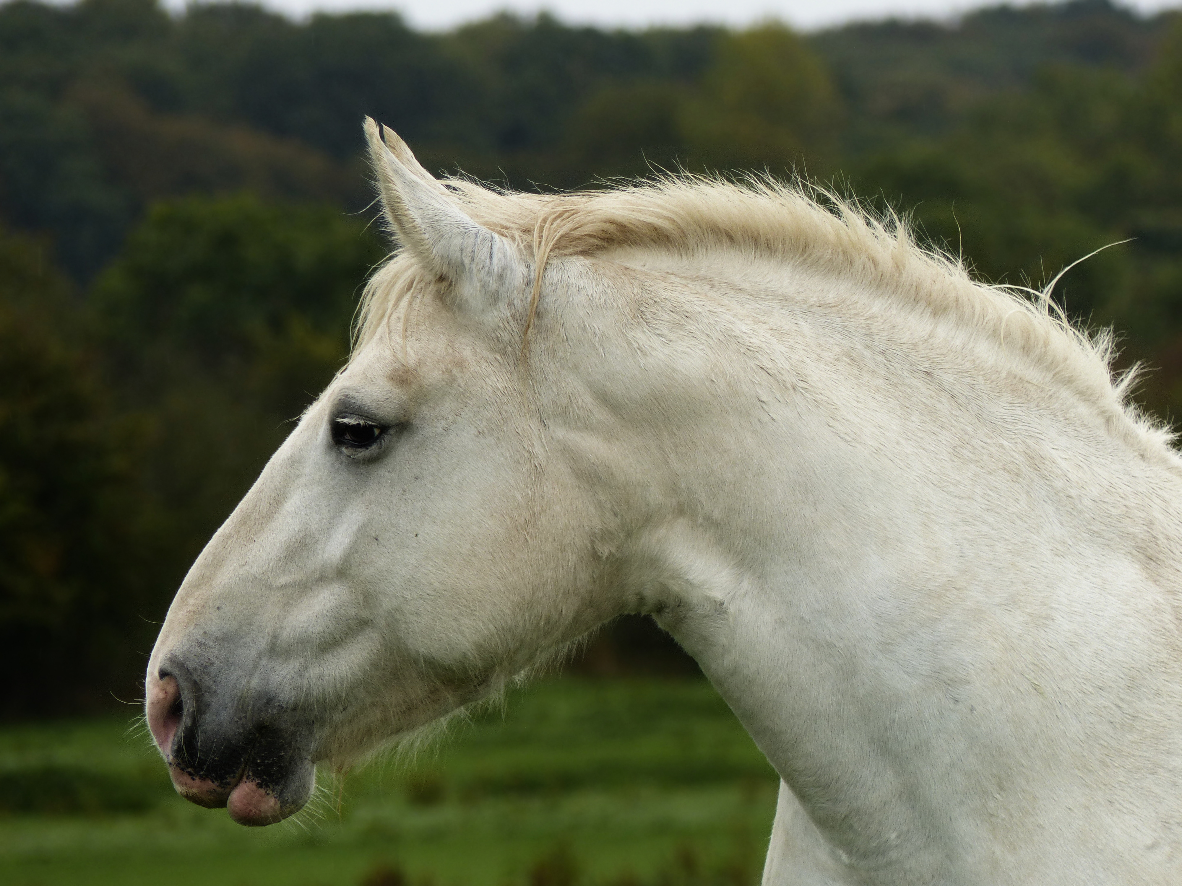 Boulonnais mare, Samer, France